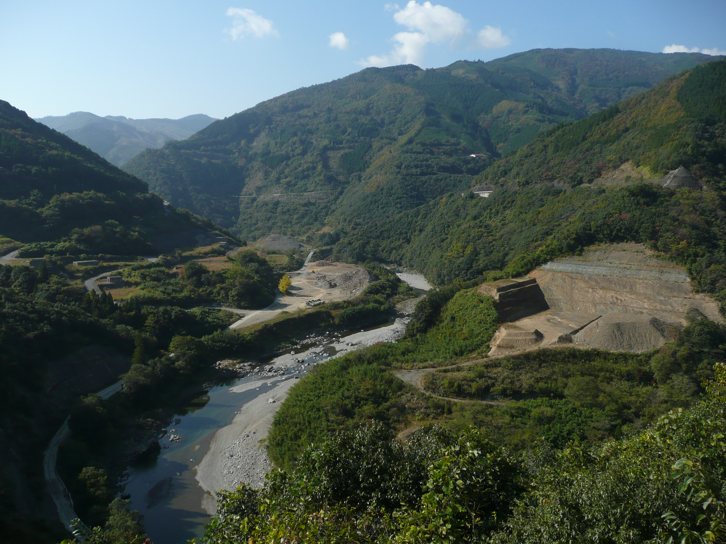 Kawabegawa River (Itsuki Village, Kumamoto, Japan)